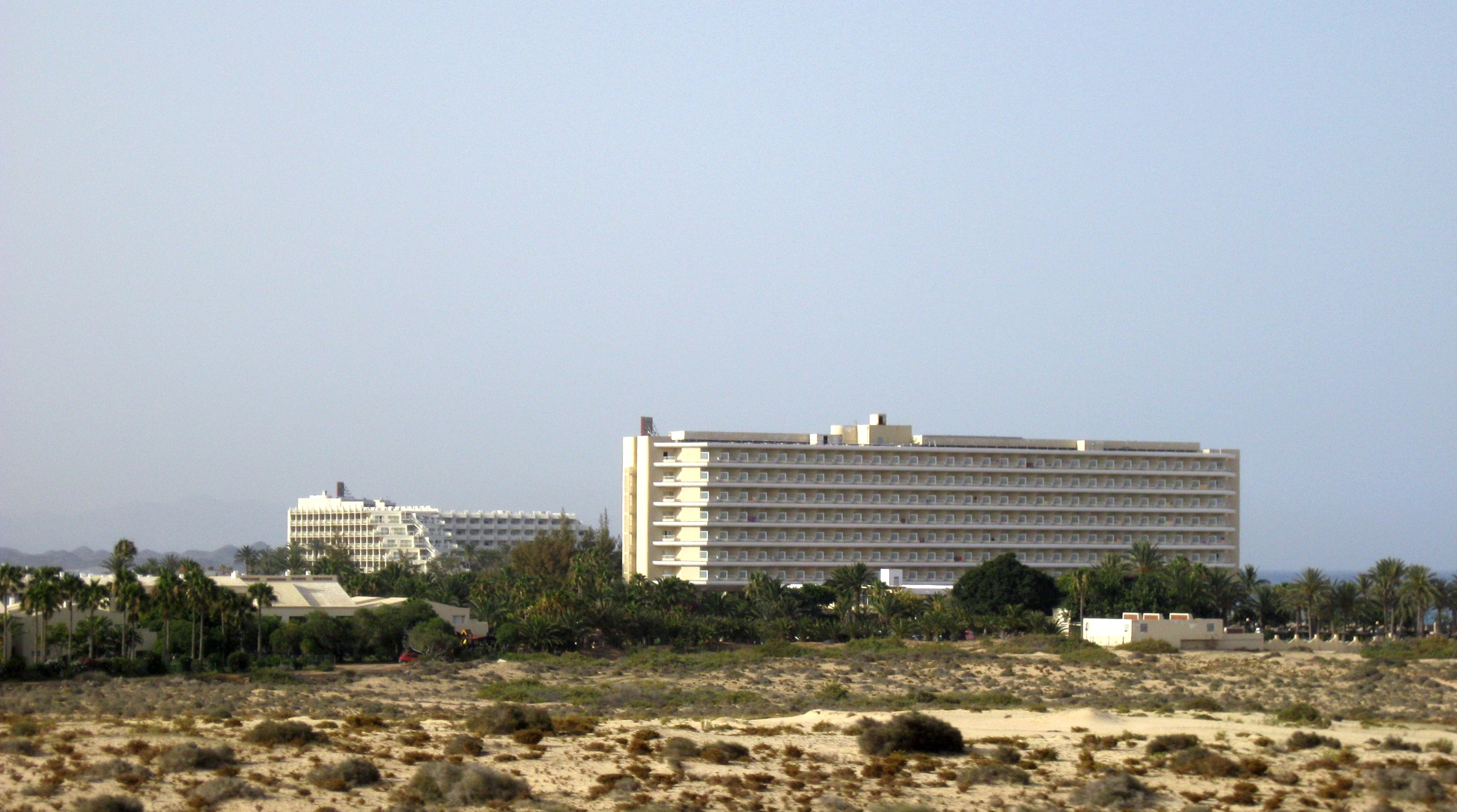 Hotels in Fuerteventura